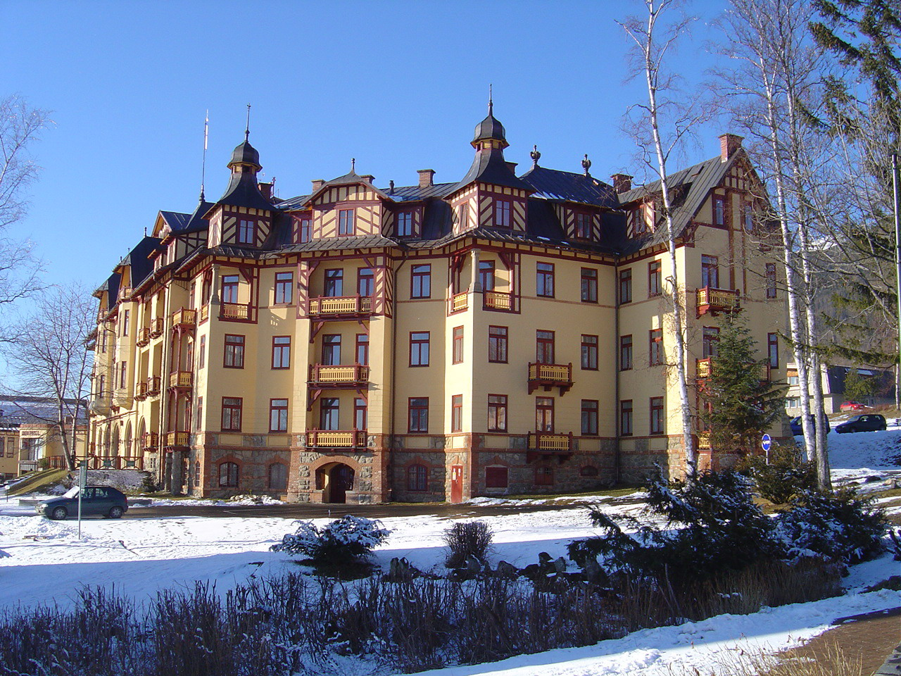 Grand hotel in Starý Smokovec This medium shows the protected monument with the number 706-1038/0 in the Slovak Republic.